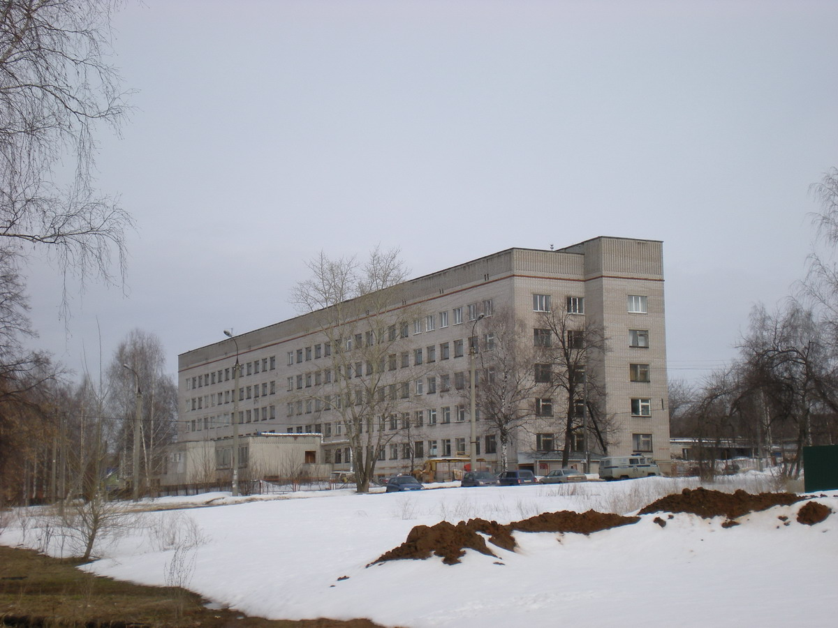 City hospital No. 1 in Izhevsk (Udmurtia)Удмурт: Ижкарысь 1-тӥ номеро клинической эмъяськонни (Удмуртия)